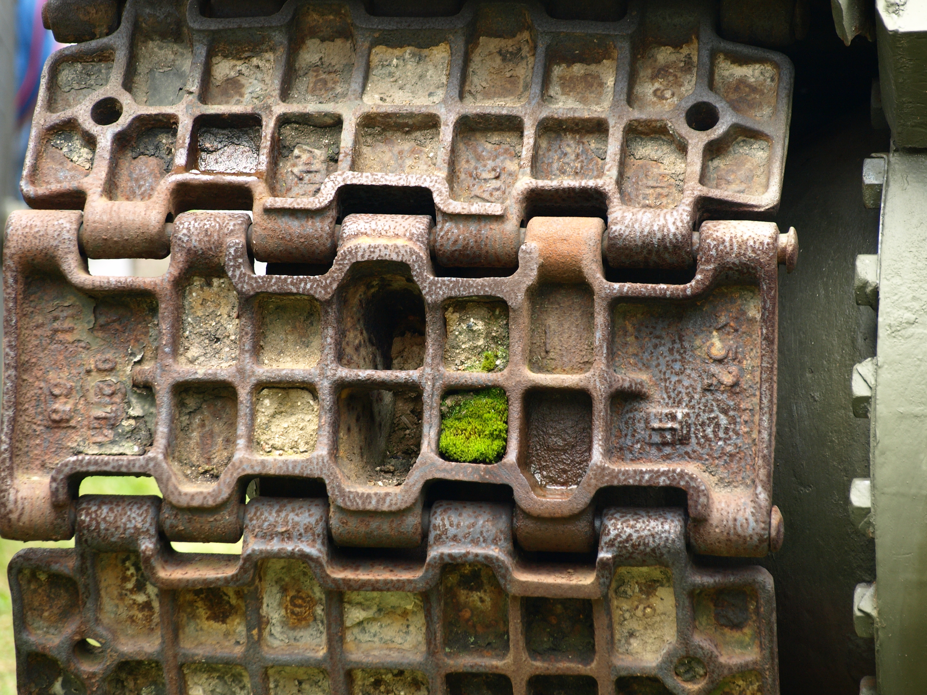 Closeup of tank tracks.Visible is the form and method of joining elements. The photo shows a military vehicle based on the T-34.